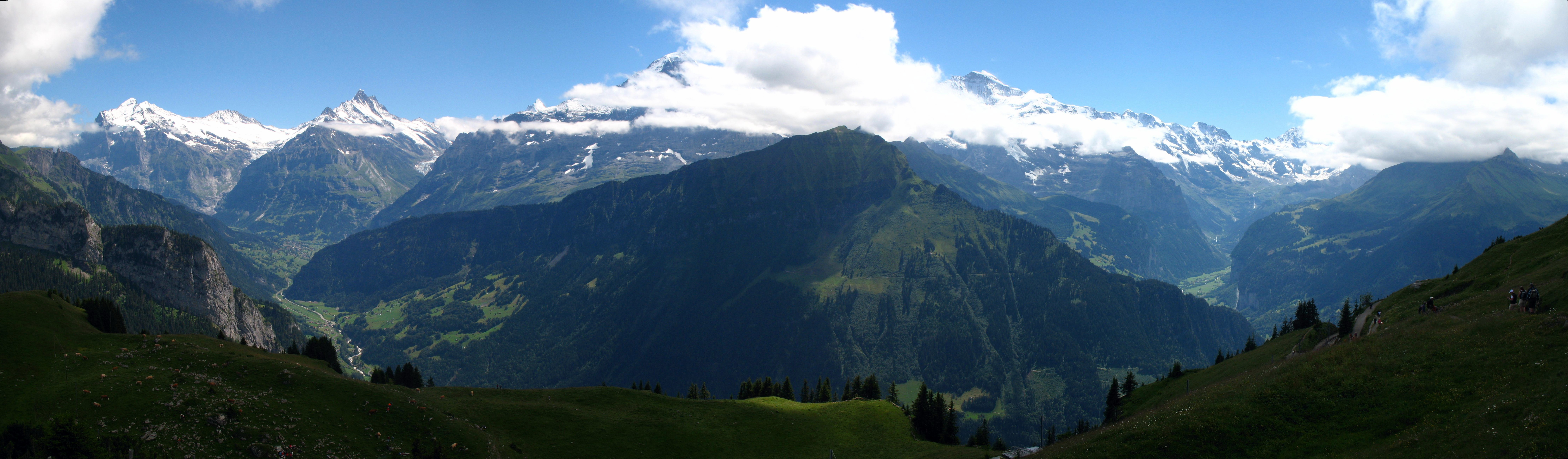 Wetterhorn, Mettenberg, Schreckhorn, Finsteraarhorn, Eiger, Mönch, Männlichen, Tschuggen, Lauberhorn, Jungfrau, Silberhorn, Ebnefluh, Mittaghorn, Grosshorn, Breithorn, Ars, Lütschine Valley and the Lauterbrunnen Valley viewed from Schynige Platte, Switzerland